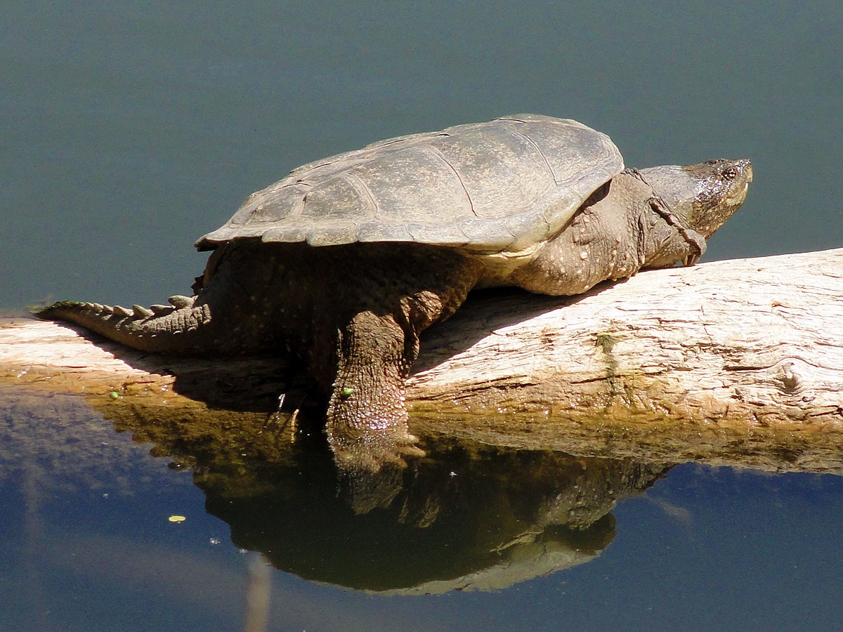 Photographed May 6, 2012, Arapaho Bend Natural Area, Fort Collins, Colorado